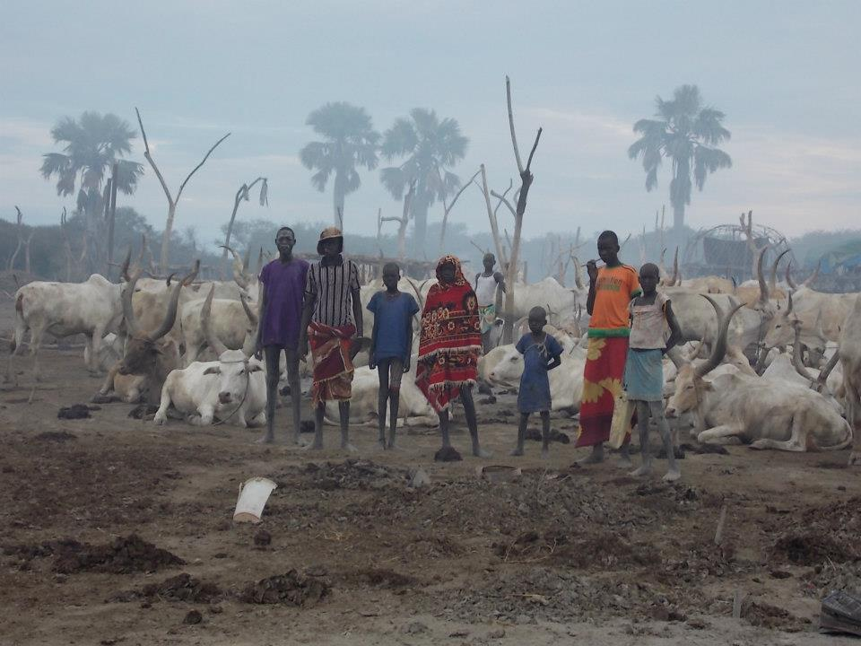 An image taken during a November 2012 visit to a cattle camp in Rumbek.